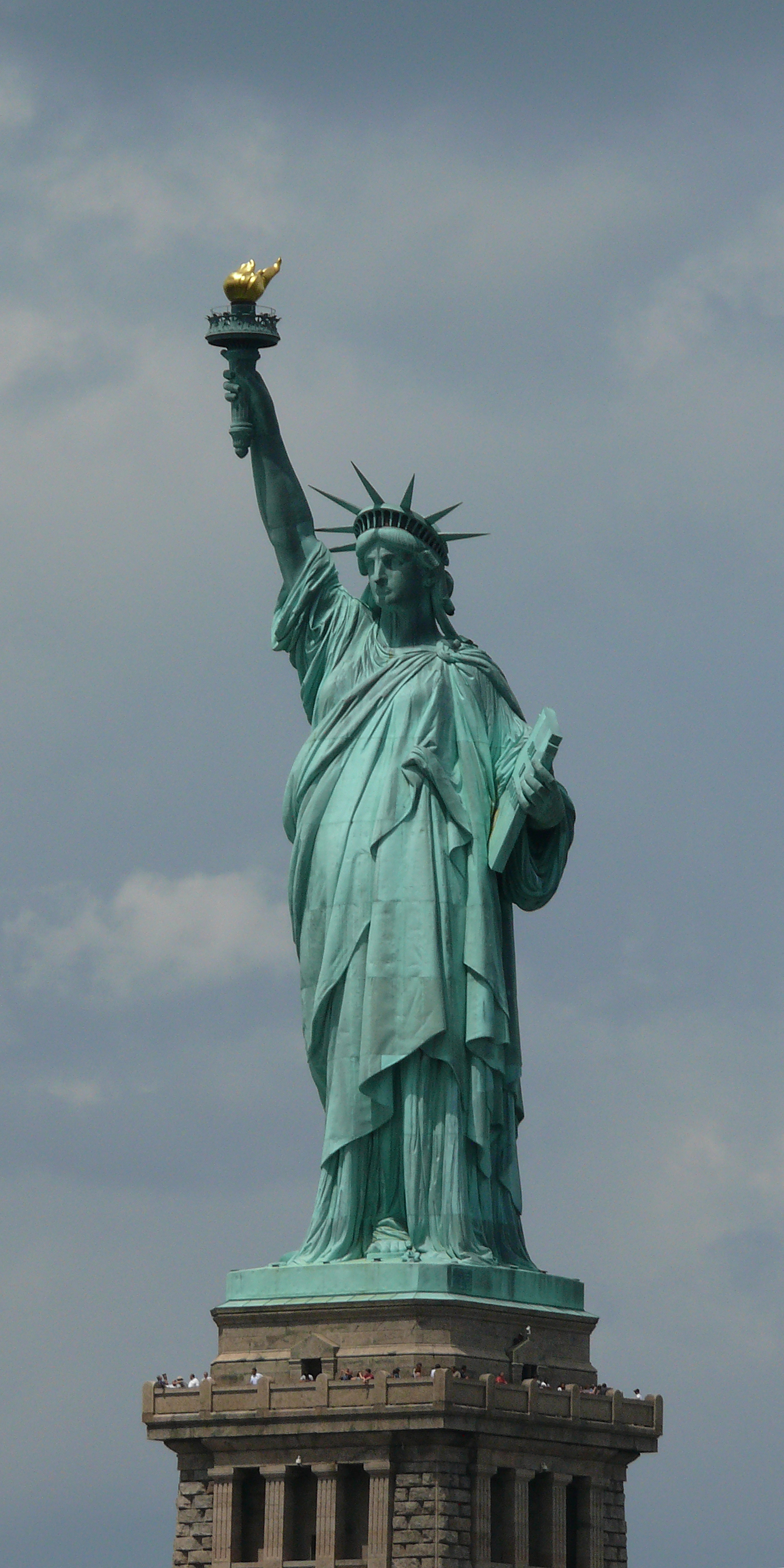 Statue of Liberty, also known as Lady Liberty her official name is Liberty Enlightening the World. It was dedicated on October 28, 1886, and is a monument commemorating the centennial of the signing of the United States Declaration of Independence, given to the United States by the people of France to represent the friendship between the two countries established during the American Revolution.